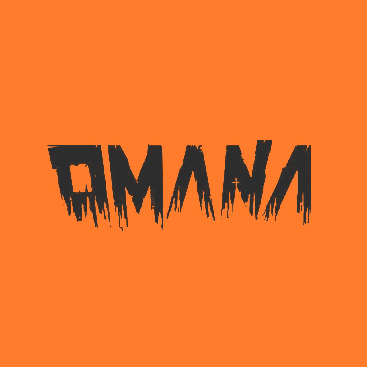 OMANA logo